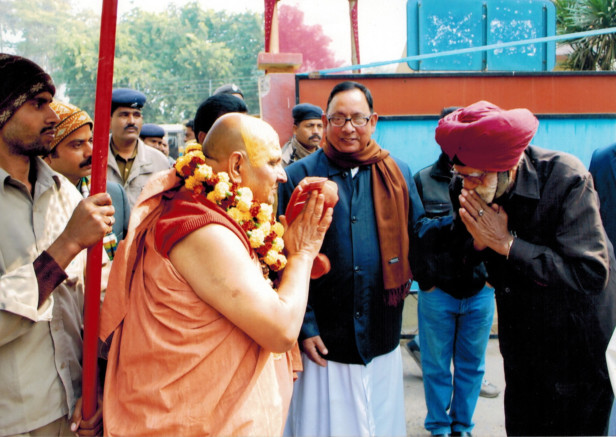 Shri Shankaracharya Hosted by the Diocese of Bhagalpur